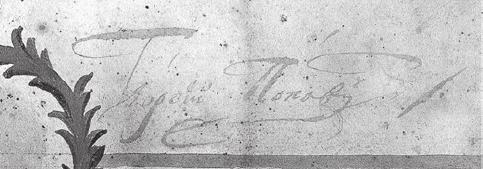 Signature of Georgije Popović, 1746. Српски (ћирилица): Потпис Георгија Поповића, на Синђелији коју је издао свештенику Томи Павлову 14. децембра 1746. године